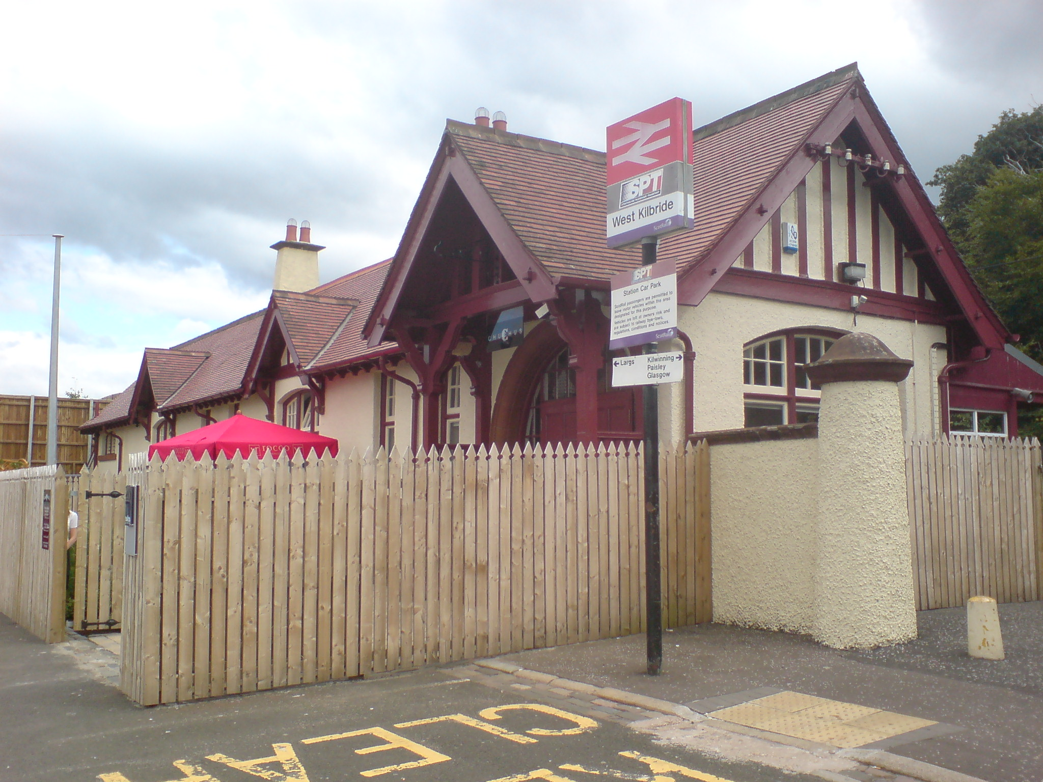 The former station building at West Kilbride railway station, North Ayrshire, Scotland. The building is now a restaurant. Photography by Dreamer84, taken on 21 August 2007.